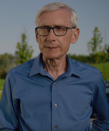 Tony Evers in September 2018.